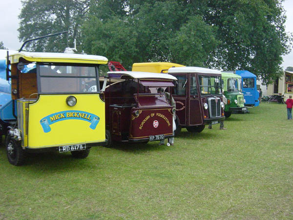 A selection of historic Shelvoke & Drewry vehicles photographed at a classic truck show, England 2005.